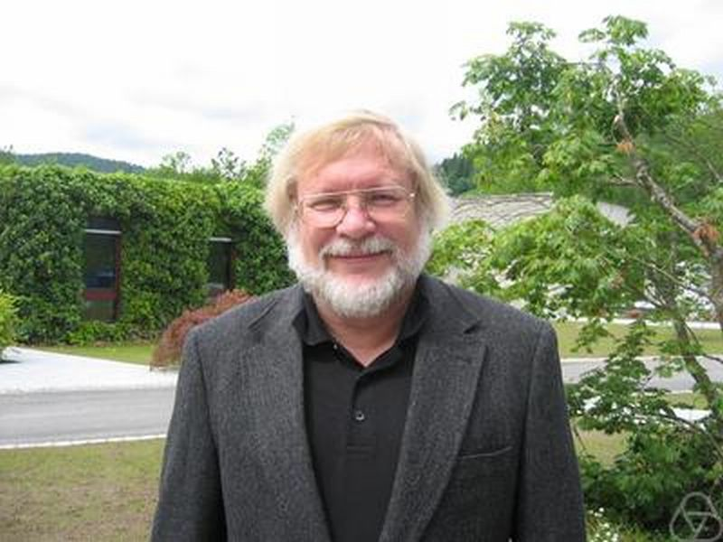 Heinrich Matzat 2007 in Oberwolfach